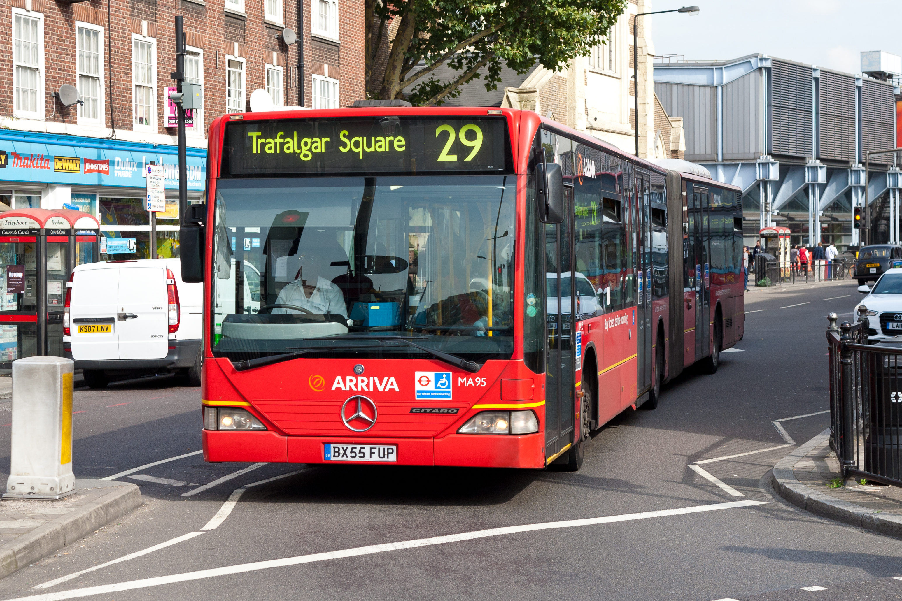 A dying breed